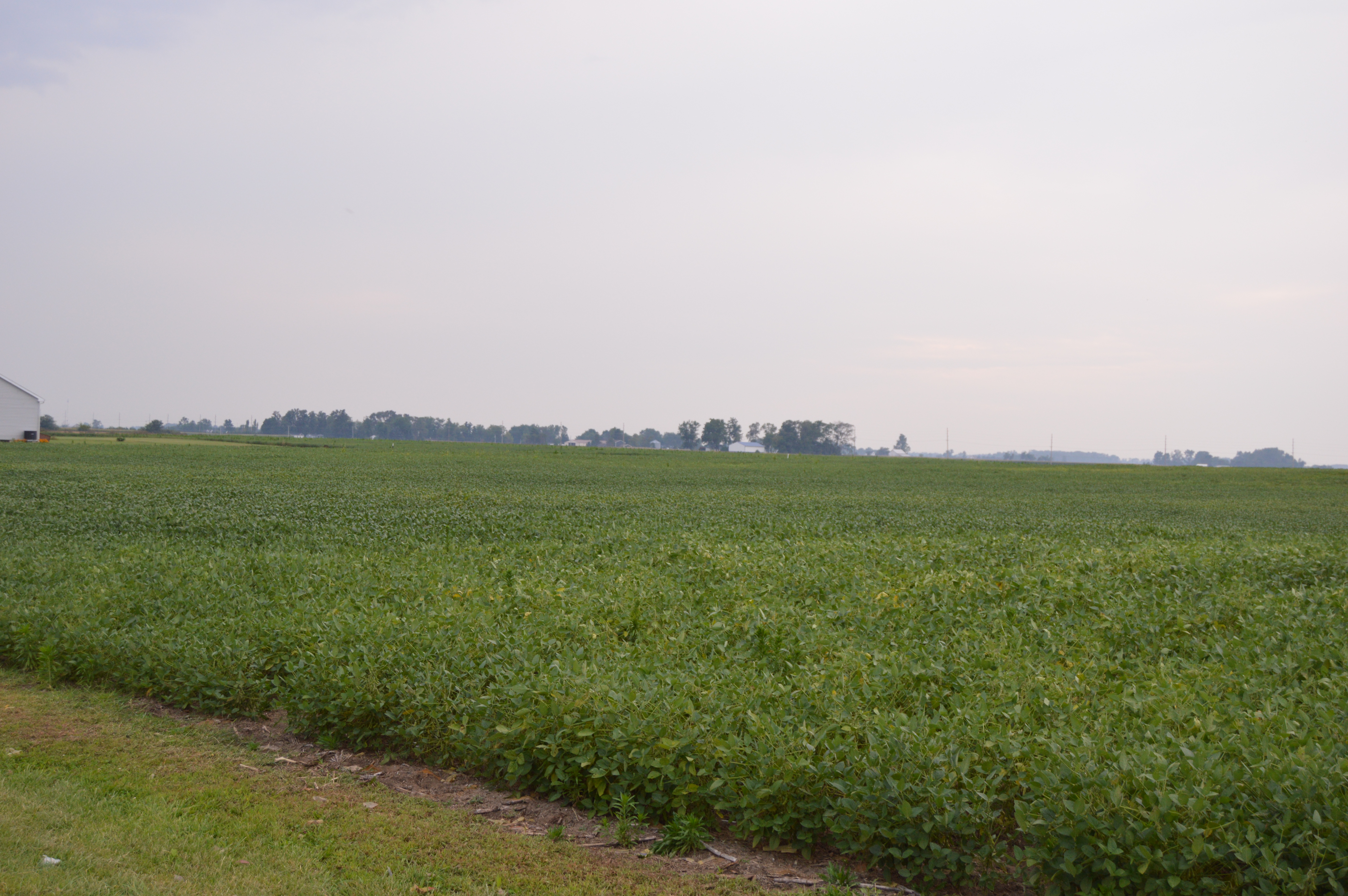 Fields on the eastern side of Van Tassel Road south of the U.S. Route 6 junction in Weston Township, Wood County, Ohio, United States.